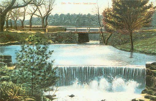 Dam at Chase's Pond, York, ME; from a 1910 postcard.